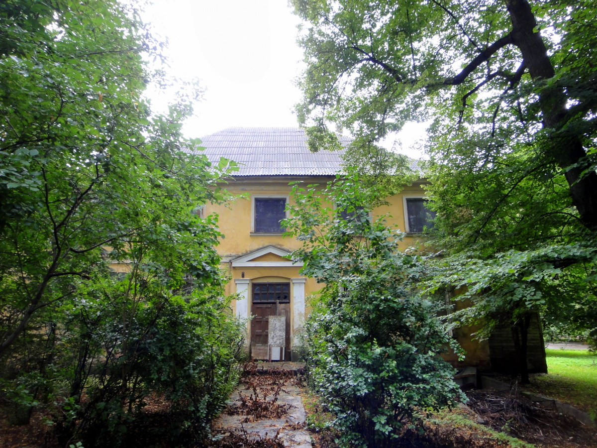 The last days of the Ebelshof